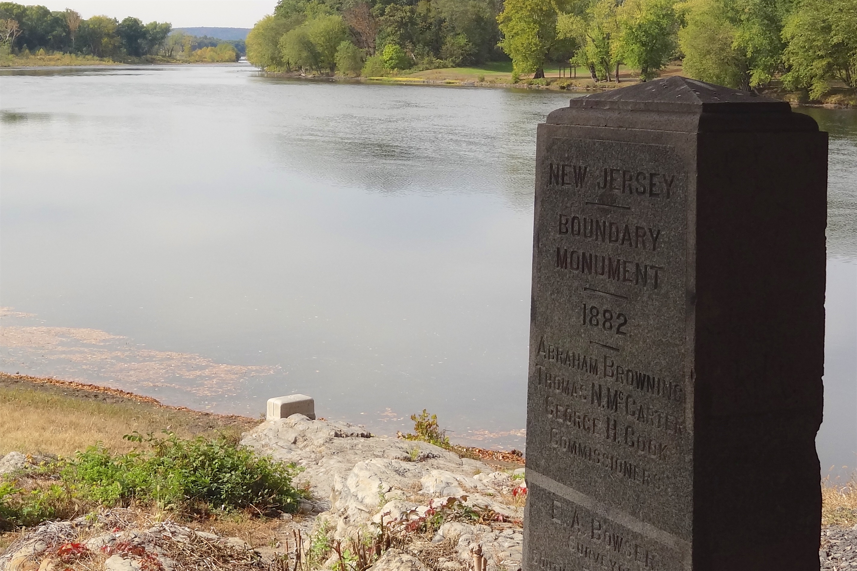 The Witness Monument for the Tri-States Monument marking the boundary of the states of New Jersey, New York, and Pennsylvania. View looking southwest along the Delaware River marking the boundary between New Jersey and Pennsylvania.